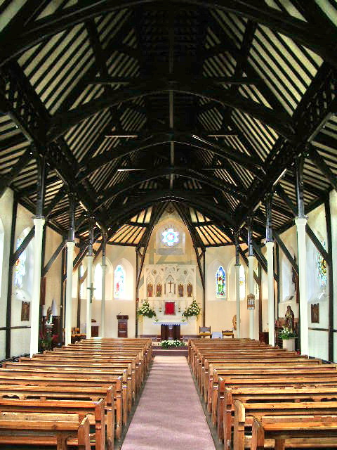 Interior of St Anne's RC Church, Westby Mills.